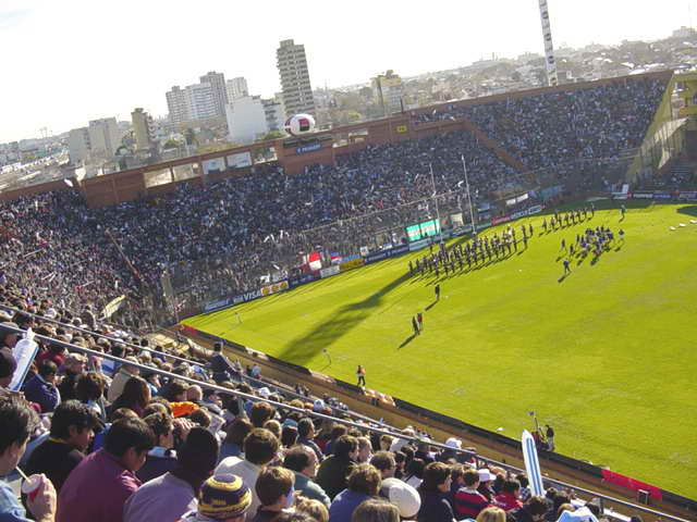 Argentina rugby union team vs. France. Vélez Sarsfield Stadium, Buenos Aires. Argentina won 33 to 32. [1]